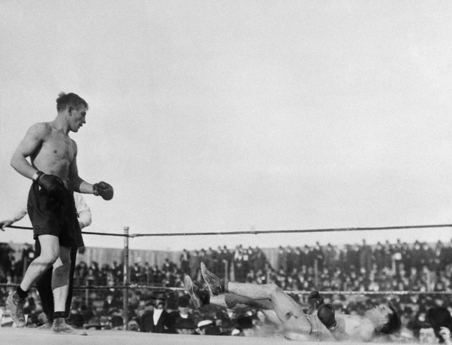 Stanley Ketchel Stands over Billy Papke